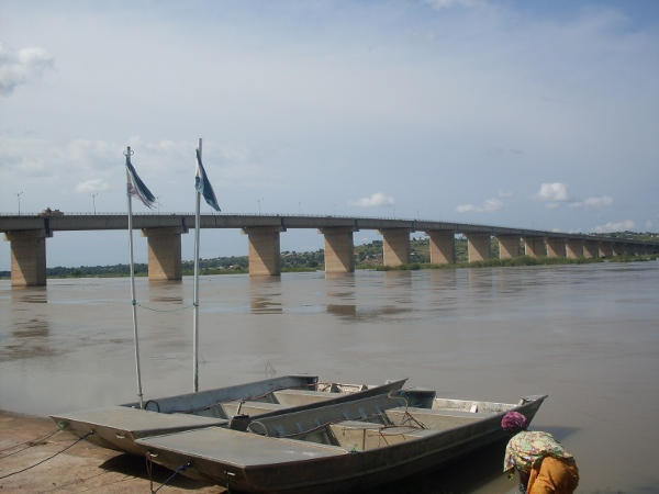 River Benue bridge in Yola, Adamawa state, Find out more about Yola By Clicking Here